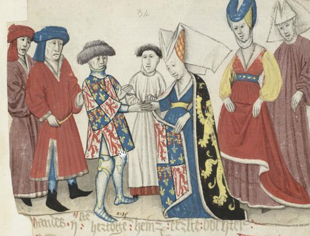 Marriage of Matilda of Brabant and Robert of Artois